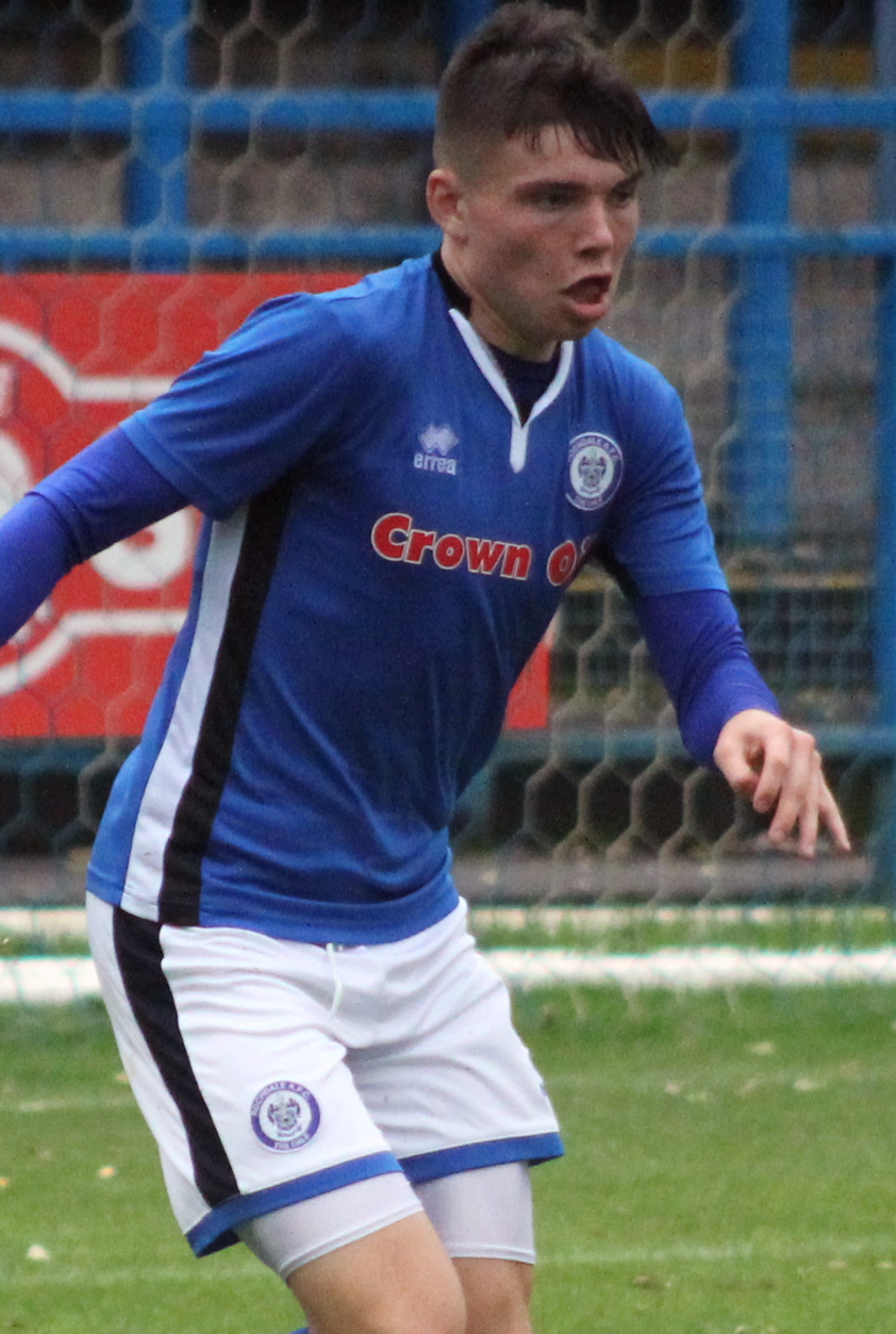 Rochdale U18s 3-2 Preston North End U18s EFL Youth Alliance Northwest Division Saturday 14 October Bower Fold